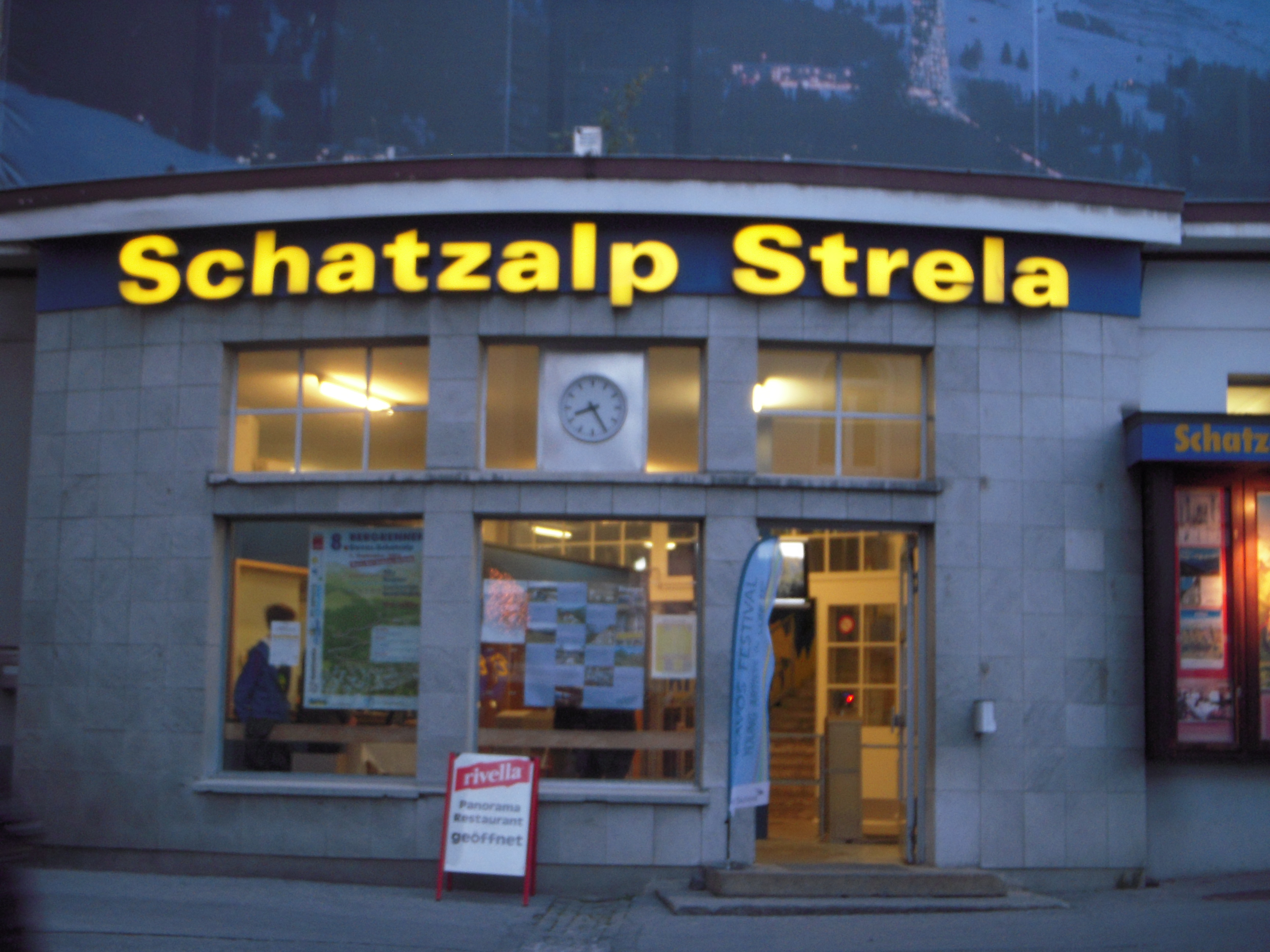 The entrance to the funicular Schatzalpbahn in Davos Platz. August 15, 2012.